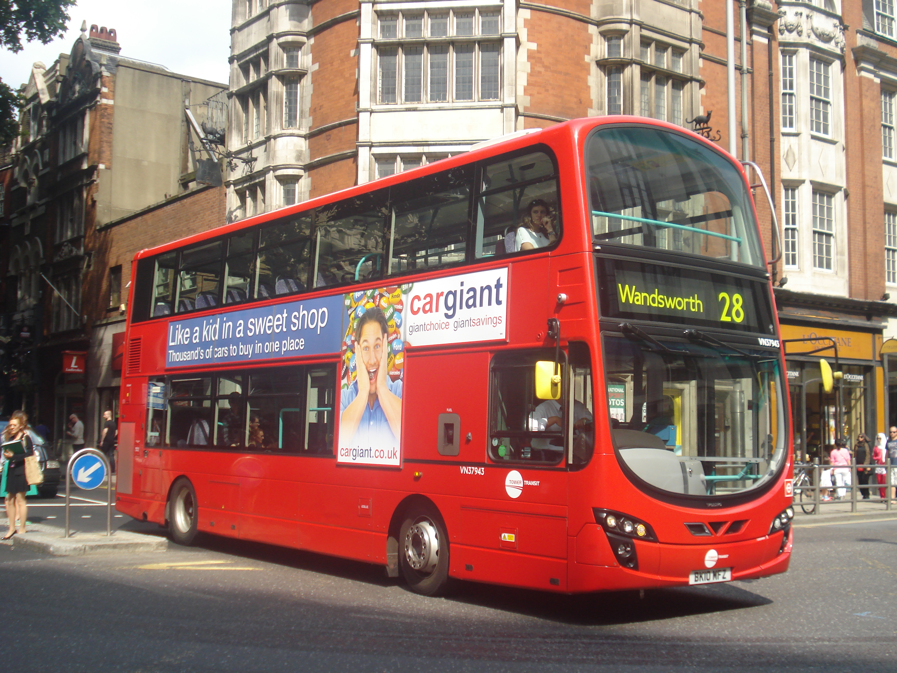 Tower Transit VN37943 on Route 28, Kensington High Street